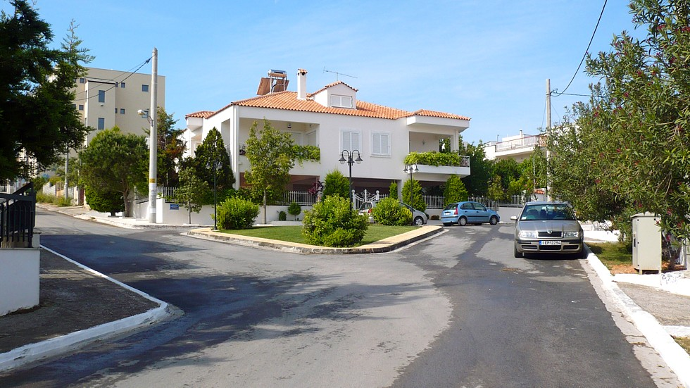 The picture depicts a new neighbourhood at Spata